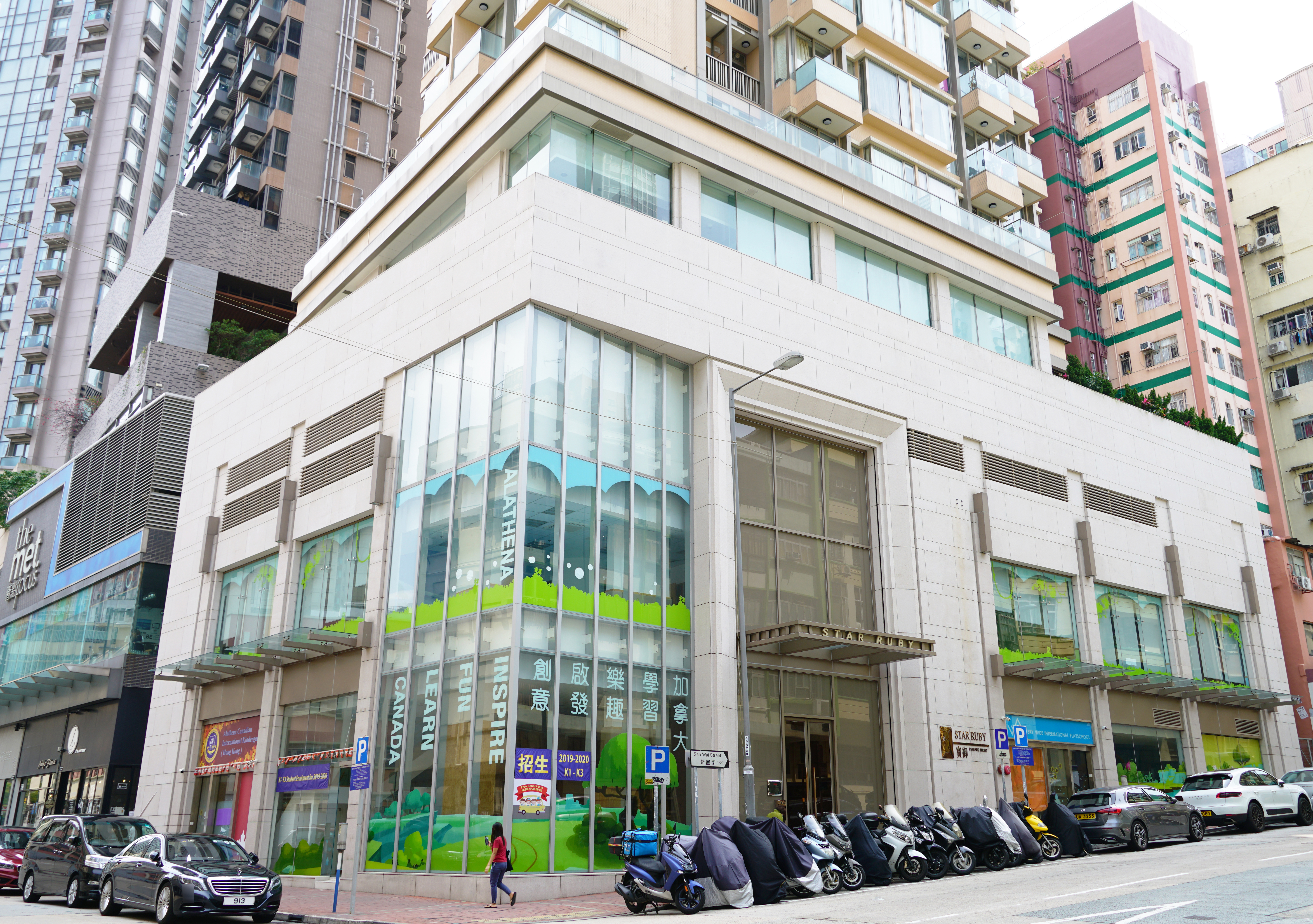 Star Ruby, Hong Kong.